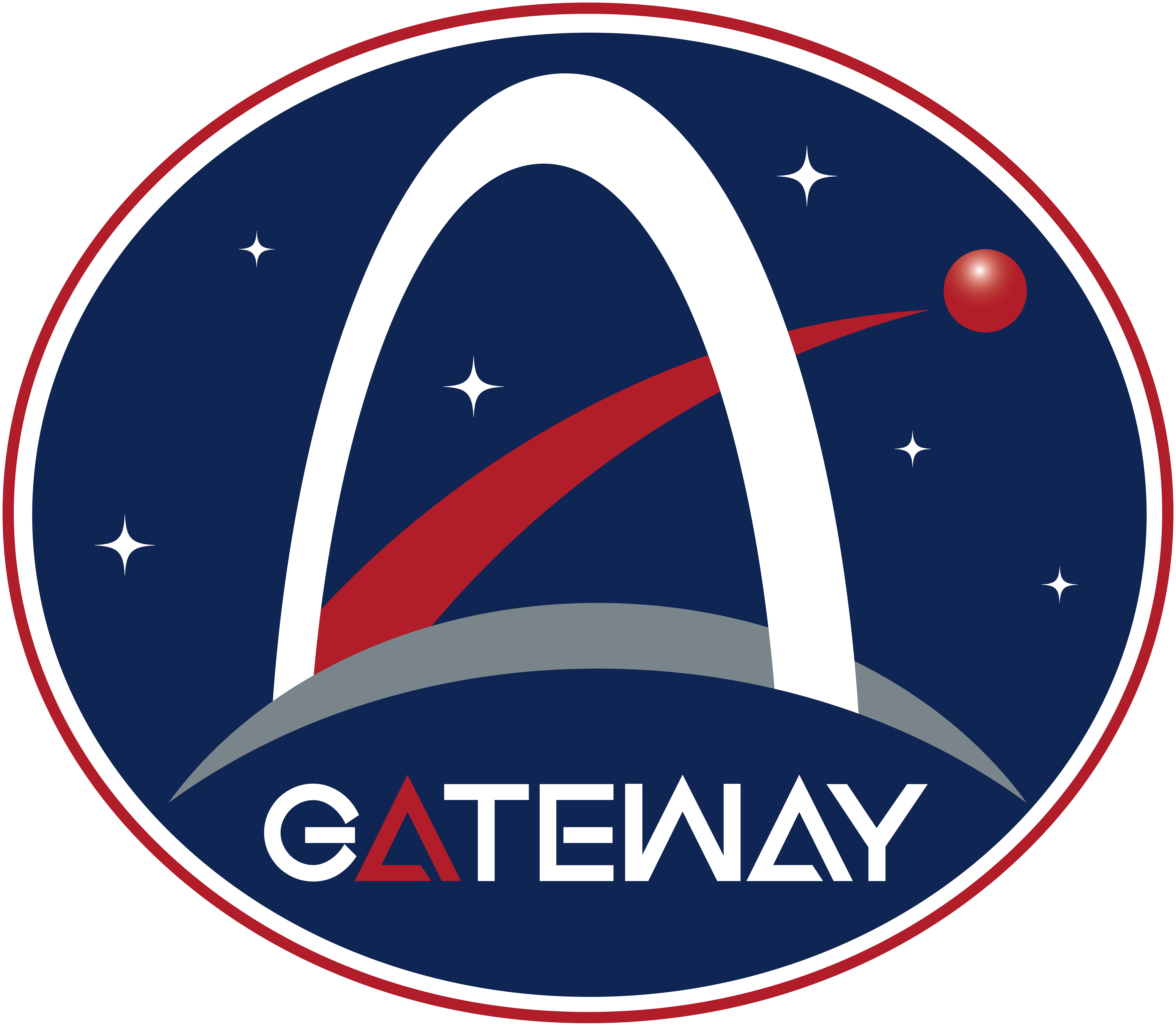 The Gateway will be a small spaceship in orbit around the Moon that will provide access to more of the lunar surface than ever before with living quarters for astronauts, a lab for science and research, ports for visiting spacecraft, and more. It is disputed whether this is an official NASA logo or not.